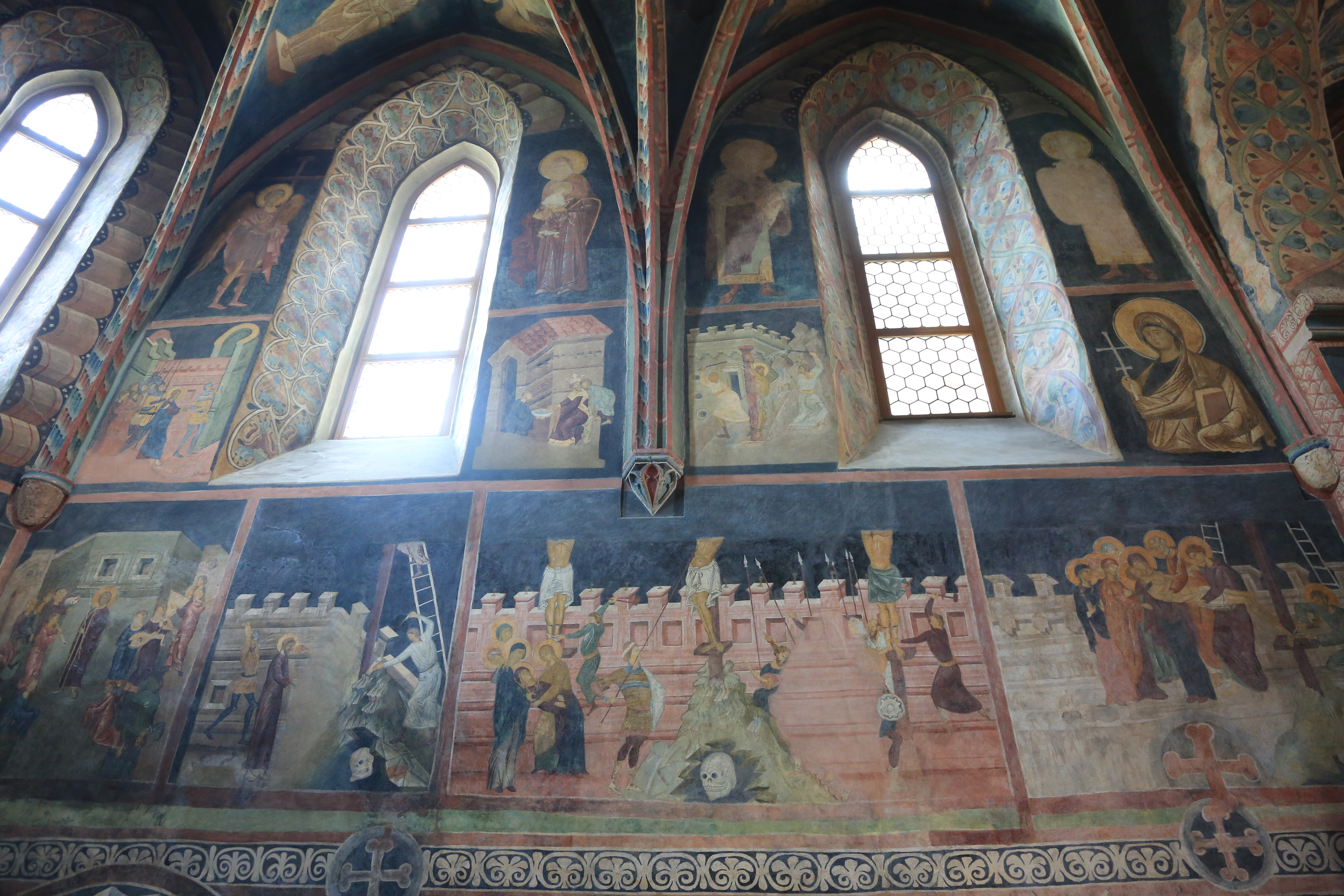 Fresco on the south wall of the choir in Trinity Chapel in Lublin